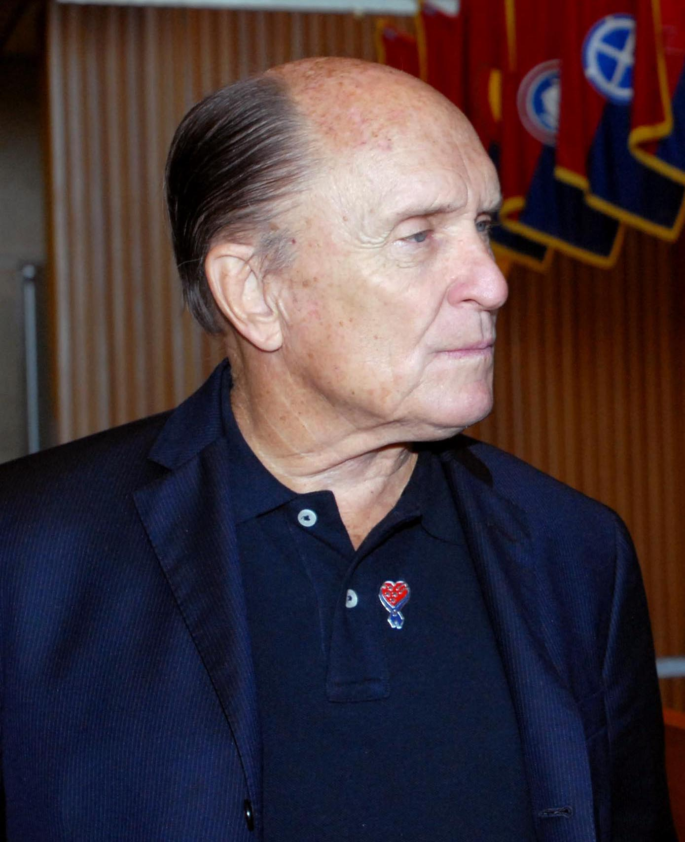 American actor Robert Duvall visiting the Walter Reed Army Medical Center in Washington.